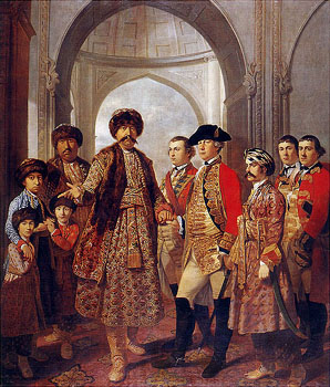 ' Suja-ud-Daula, Nawab of Awadh, with Four Sons, General Barker and Military Officers ', signed by Tilly Kettle and dated 1772, oil on canvas, size: 284 X 243 cm.